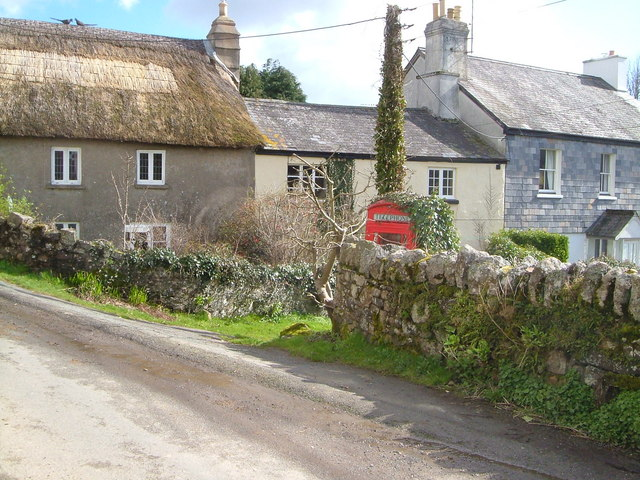 Sigford. A row of cottages dropping down from the lane to Lower Sigford Farm at the hamlet of Sigford, looking east.